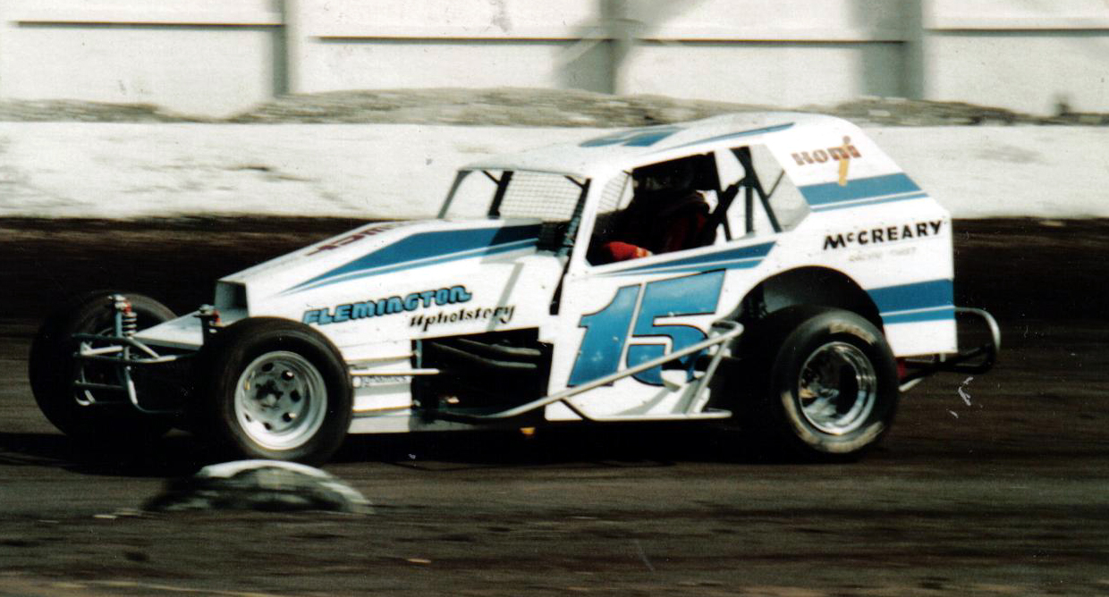 I'm pretty sure this is Billy Pauch at an Eastern States Event. OCFS is one of the few speedways this greatdriver never took a feature at. Had one taken away in 1980.Billy Pauch #15